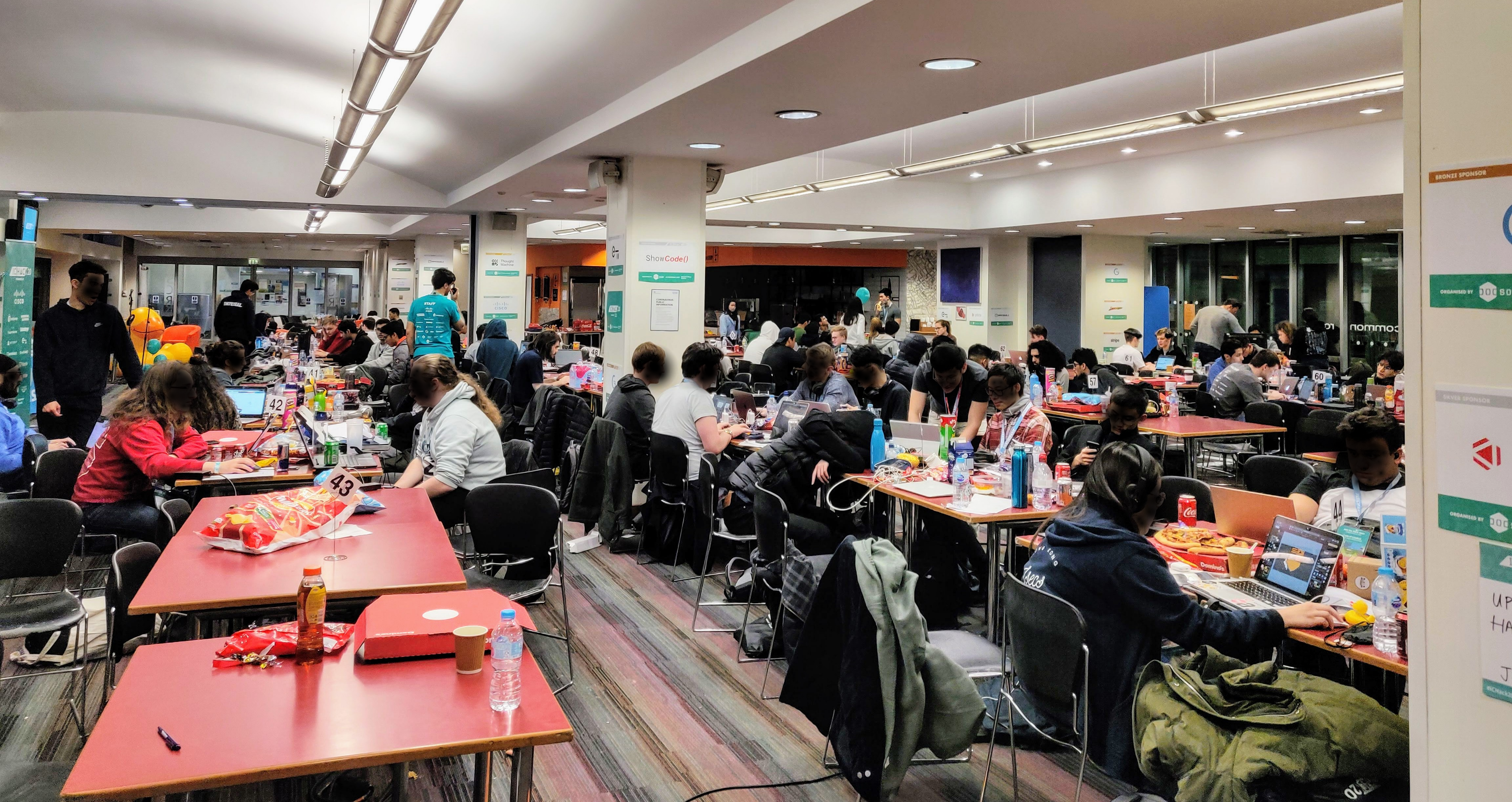 The Senior Common Room during IC Hack 20, a student-run hackathon at Imperial College, in the Sherfield Building. The room looks over Queen's Lawn and is normally the central cafeteria for postgraduates and academics, however it was taken over by undergraduate contestants for the hackathon.